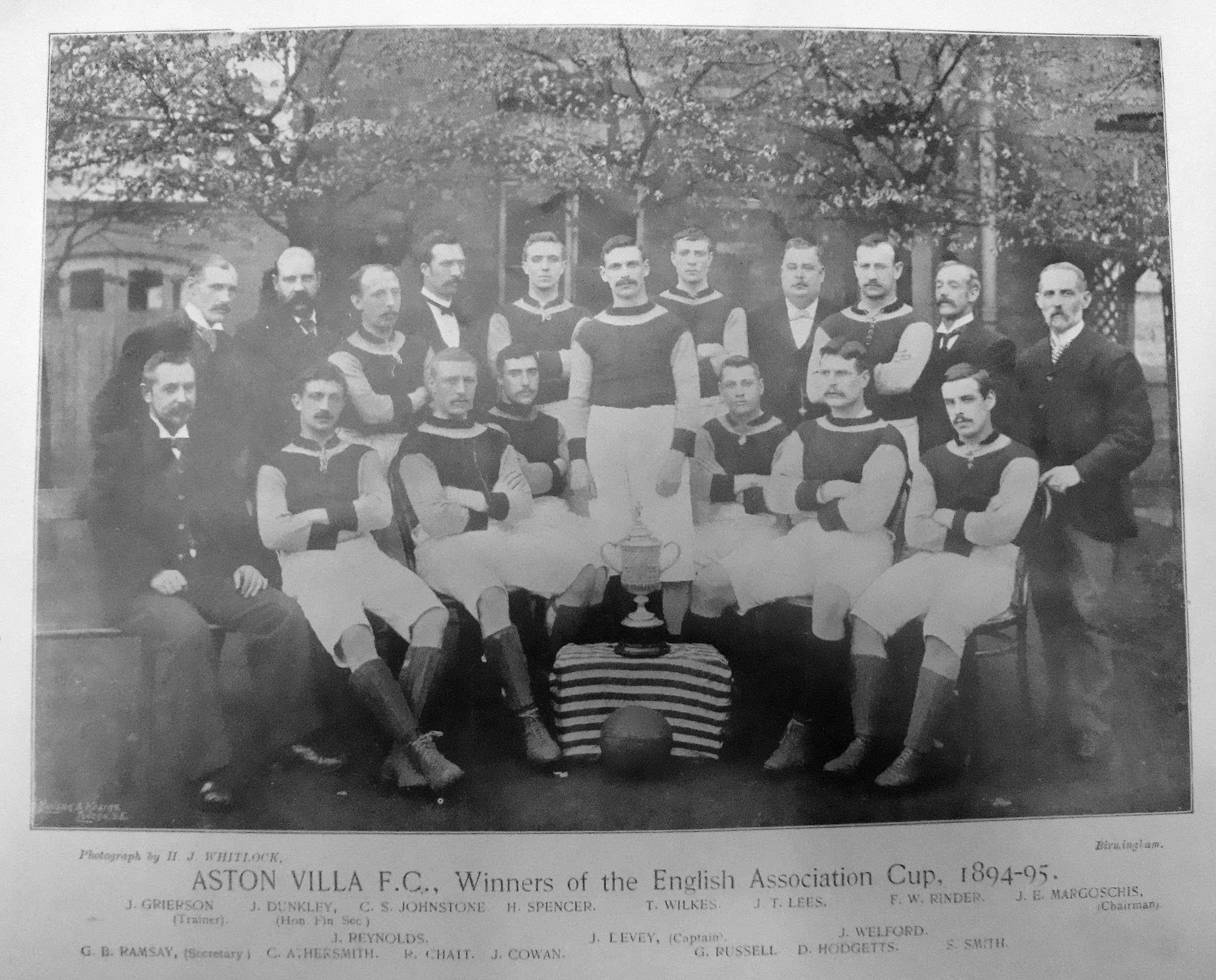 The Aston Villa FC team that won the 1894-95 edition of the FA Cup.